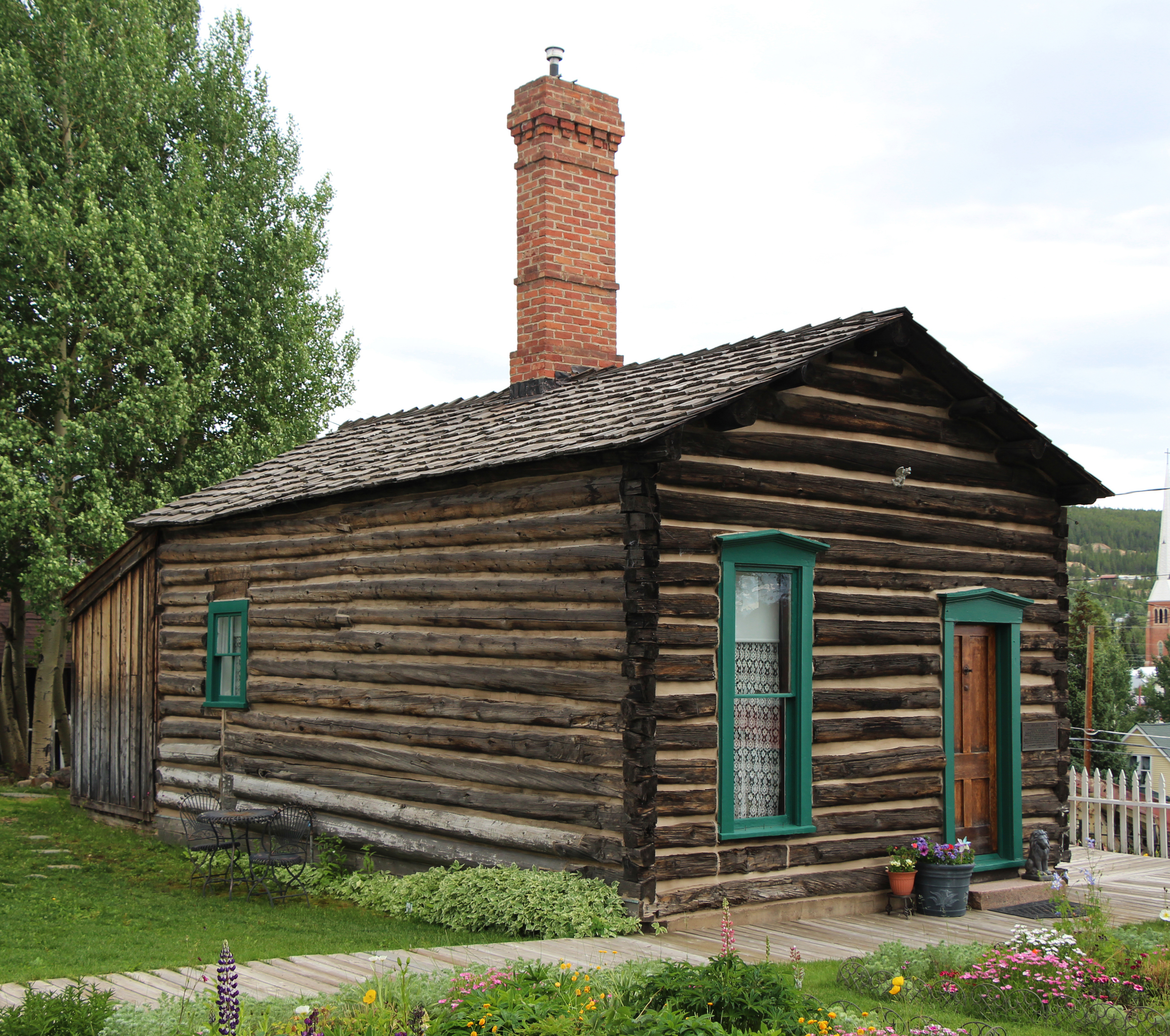 Dexter Cabin, Leadville, Colorado